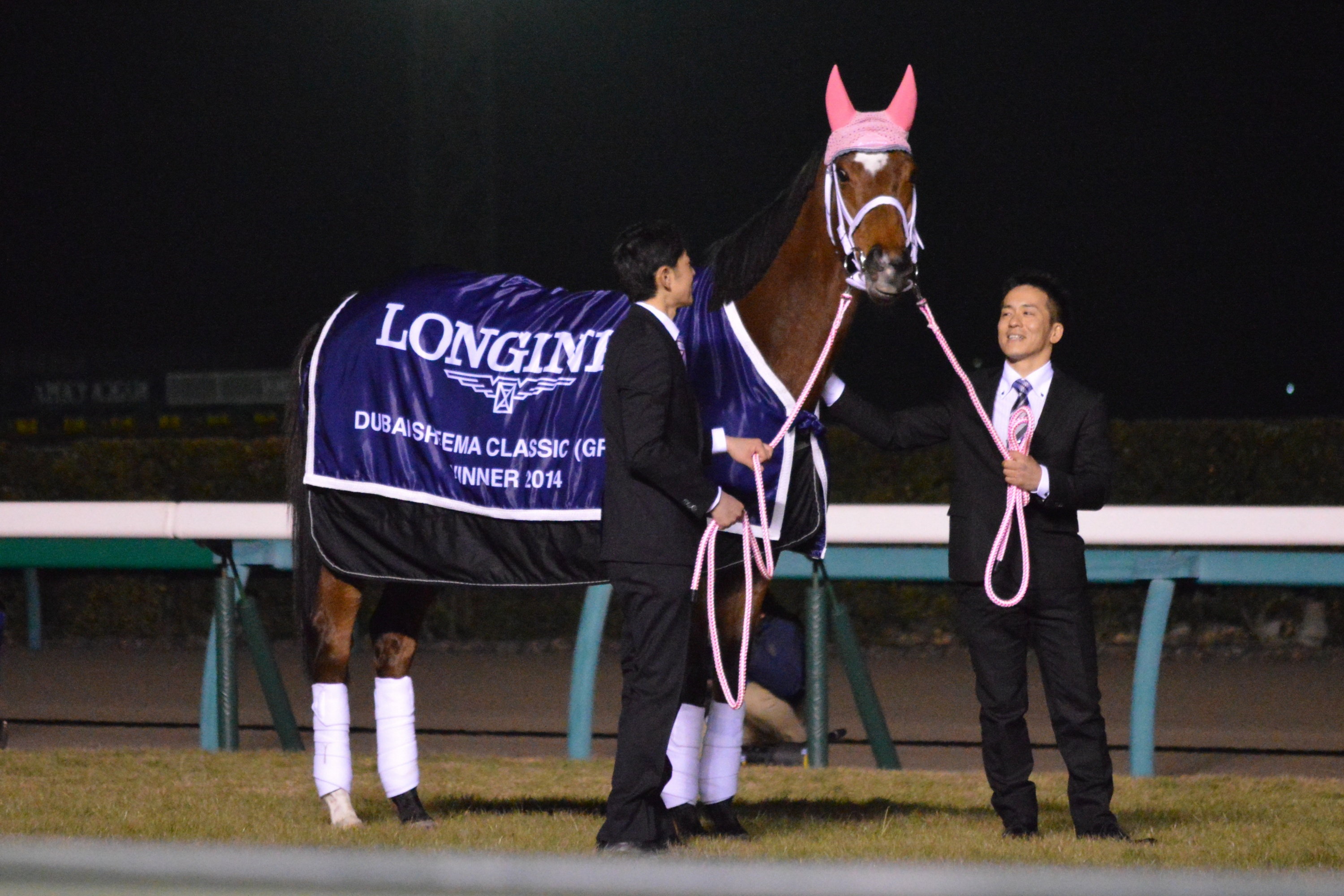 Japanese race horse Gentildonna at Nakayama racecourse. Nakayama (JPN) 28 Dec 2014 The retirement ceremony that was held after an Arima kinen.